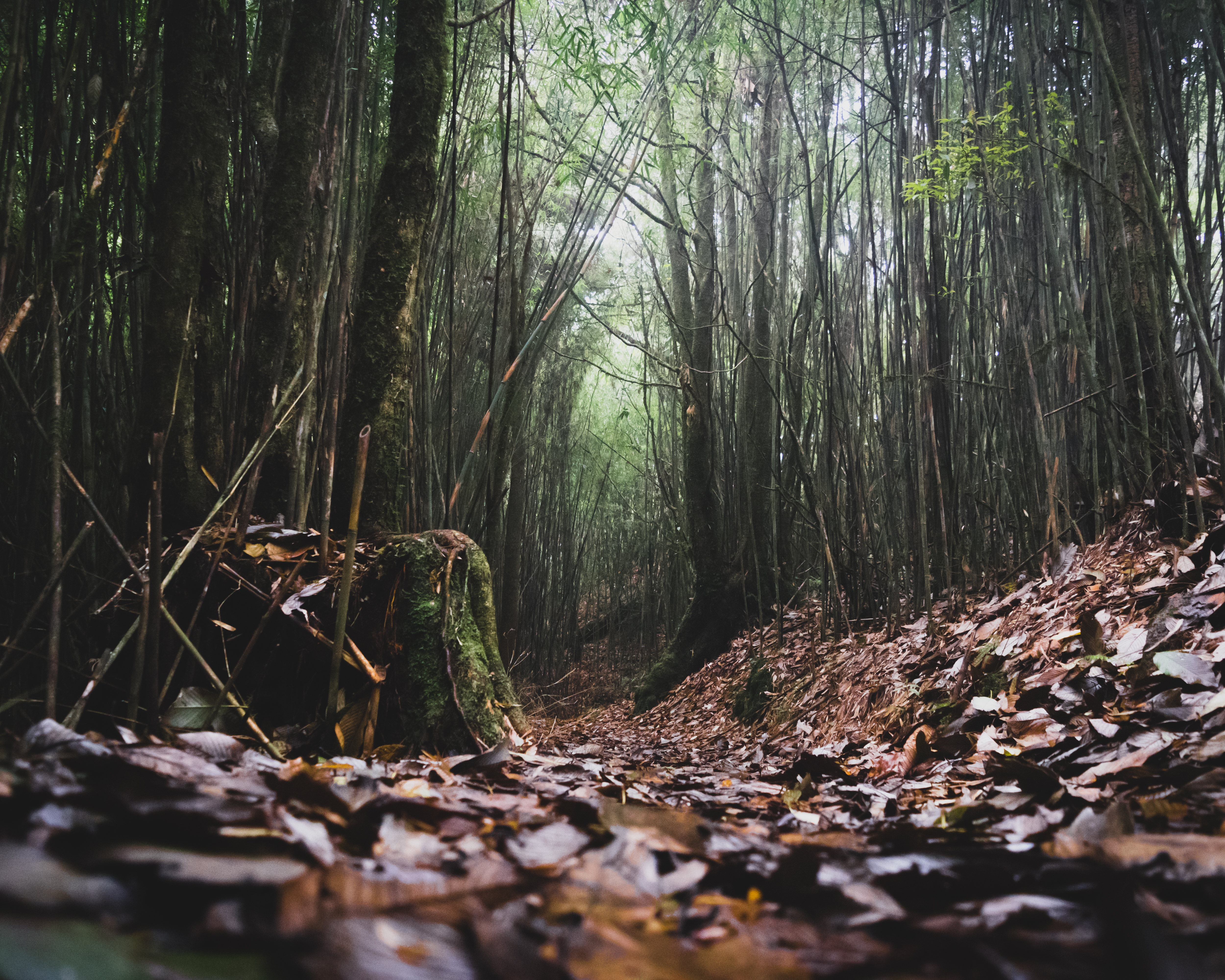 This shot was taken inside the Neora Valley National Park during the morning hours. The path was still wet from the fog. It was silent and dark, nature at peace. Please share my work with proper etiquette. Instagram- kunal.hey_ Thank you.